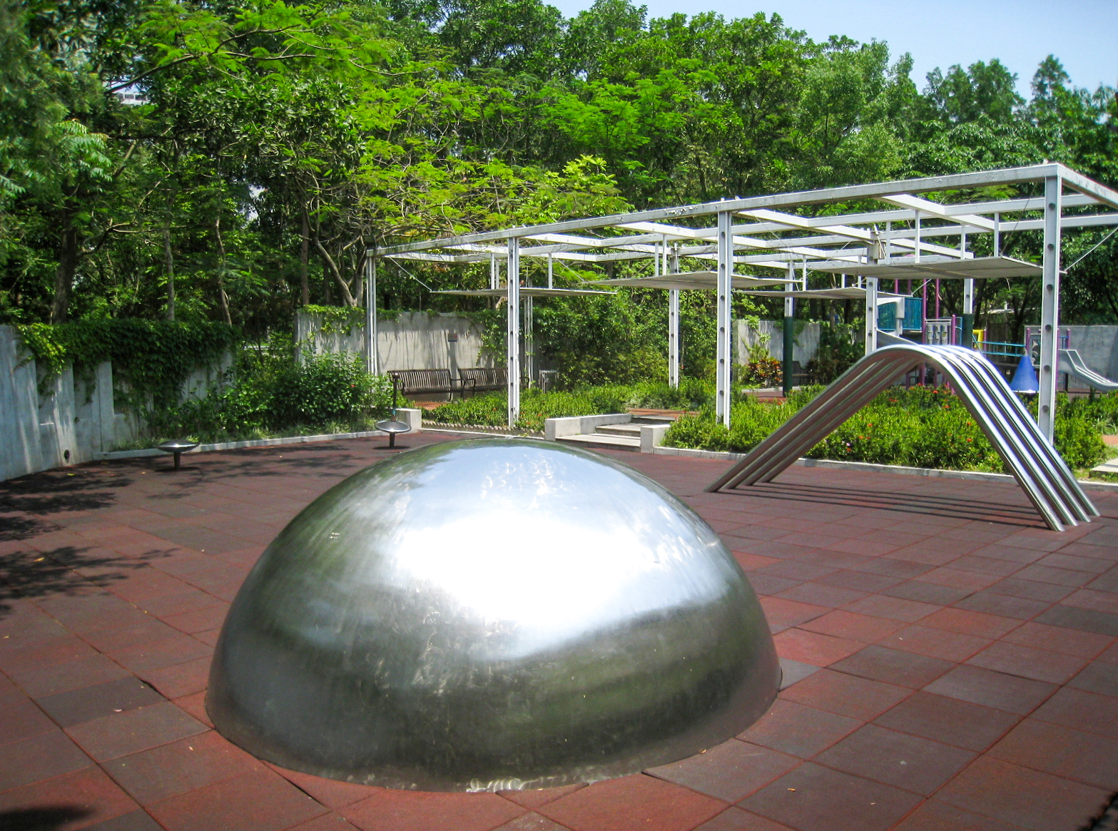 Tai Po Waterfront Park Technology Children Playground